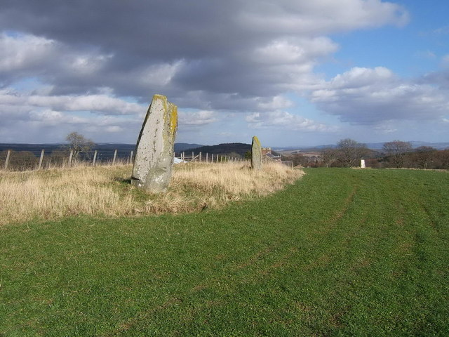 Standing stones at East Cult Farm There are three monoliths; the furthest one is lying down. An OS trig point marker can be seen in the distance; height 204 m.